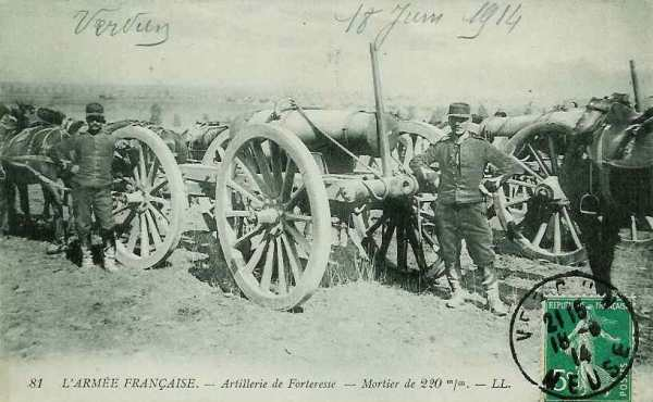 Postcard with photograph of French 220 mm mortar of 1880 on transport wagon. Postmarked June 1914.